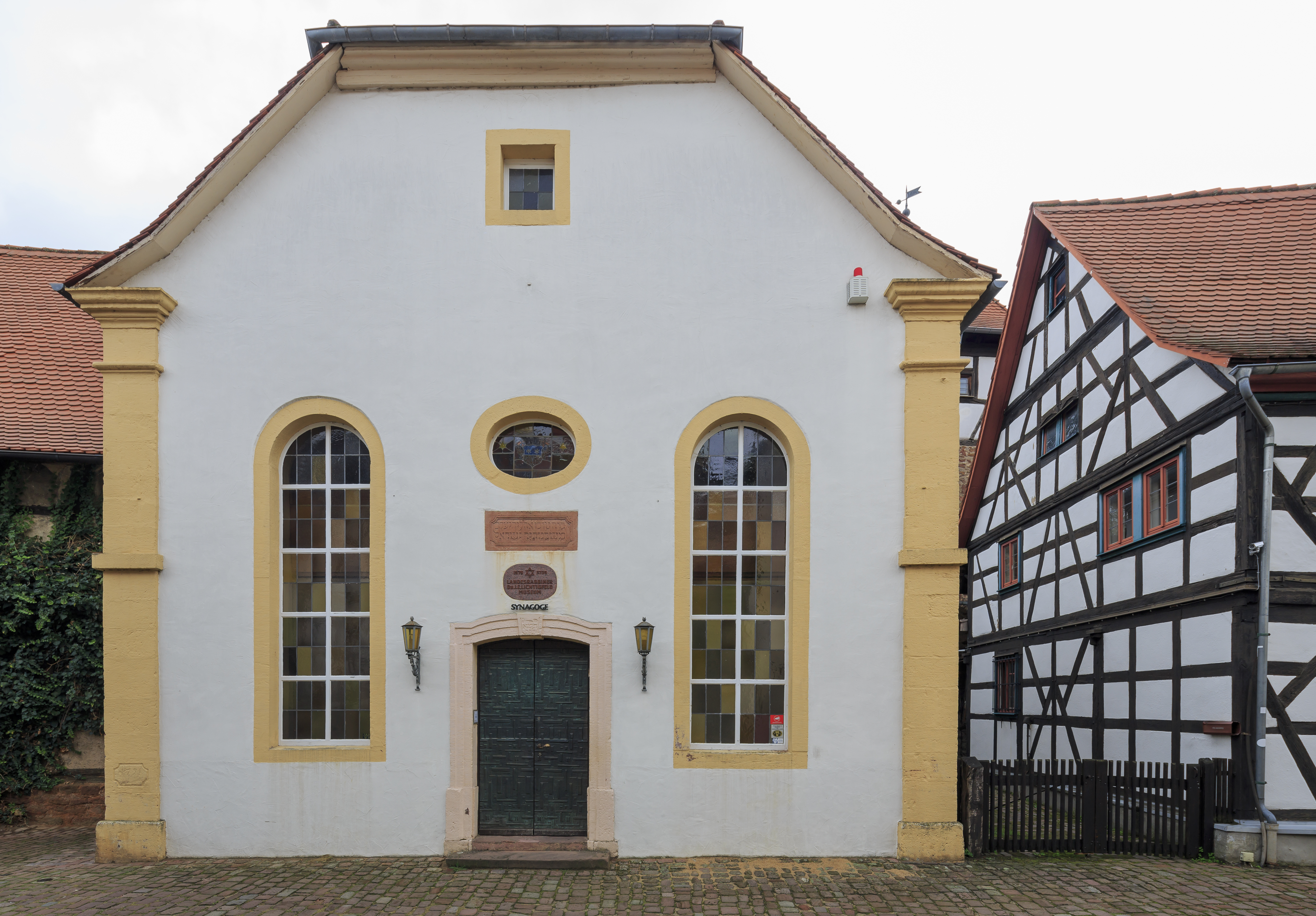 Michelstadt, Germany: Synagogue of Michelstadt and building Mauerstrasse 17 ("Wehrmannhaus")